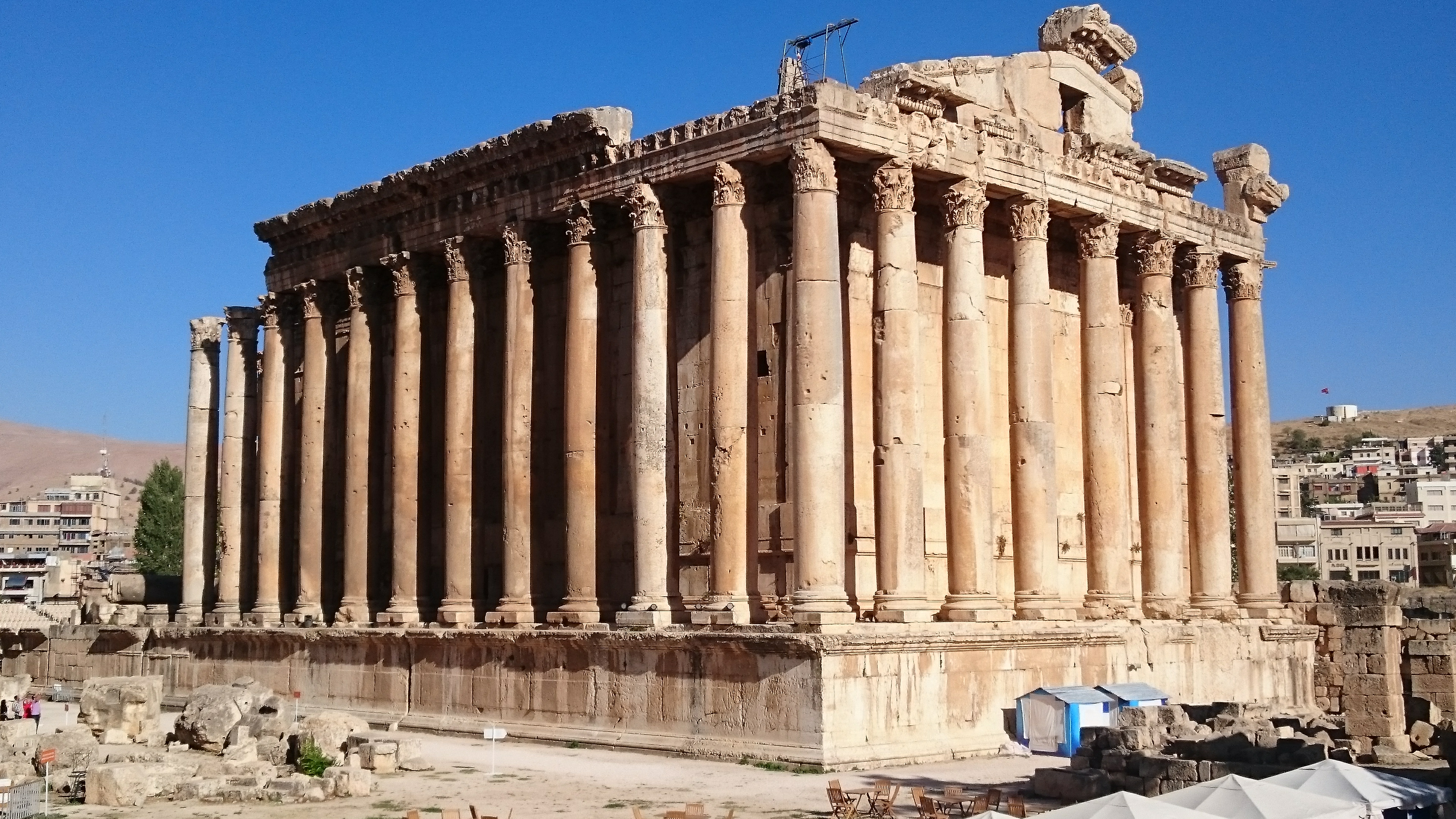 Temple of Bacchus may refer to any temple to the Roman wine god Bacchus or to temples of other gods with which he was equated in antiquity, such as the Greek Dionysus. However, it often refers specifically to the most famous temple of Bacchus, located in Roman Heliopolis (current Baalbek, Lebanon).